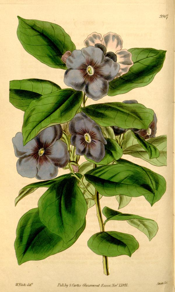 Illustration of Brunfelsia australis (as Franciscea latifolia, misidentified by Hooker. See [1], page 93)